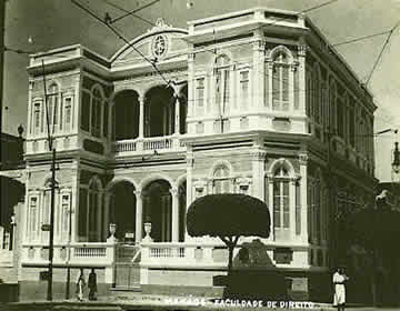 Faculty of law Manaus, early 20th century.